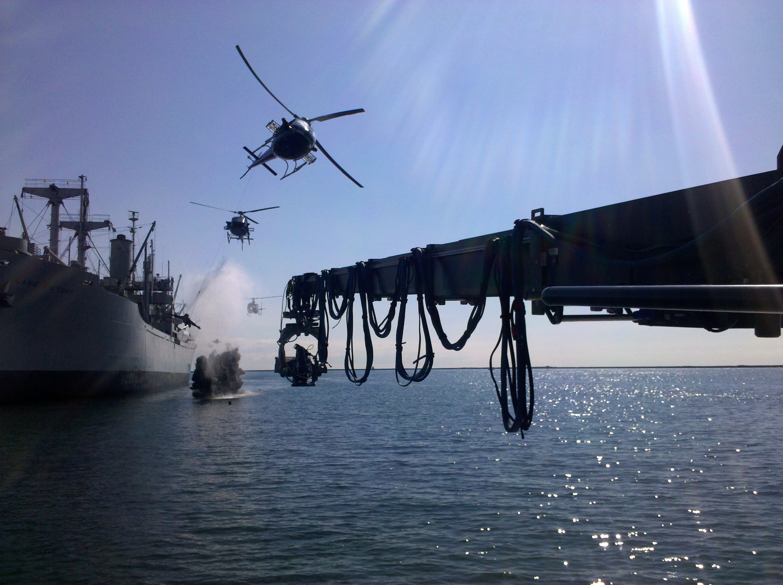 Photo By Karl Eckhardt